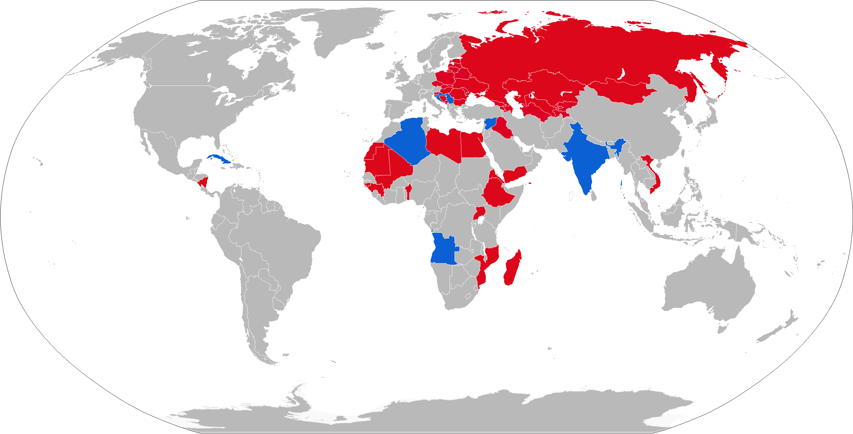 Map of 9K31 operators in blue with former operators in red